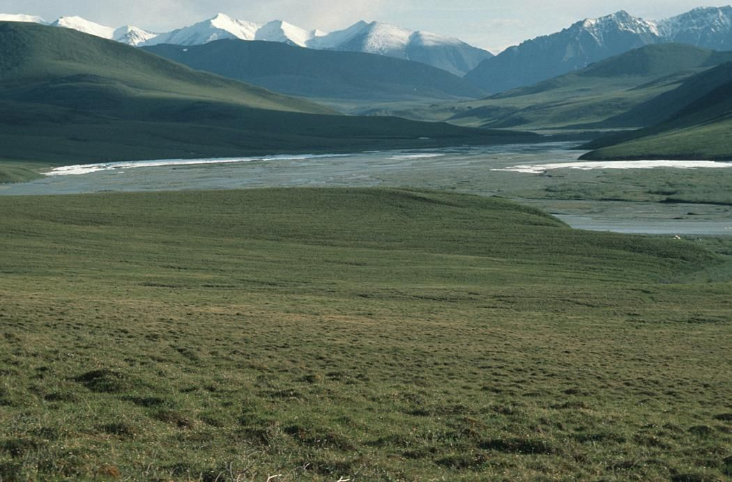 Image title: Arctic national wildlife refuge Alaska Image from Public domain images website